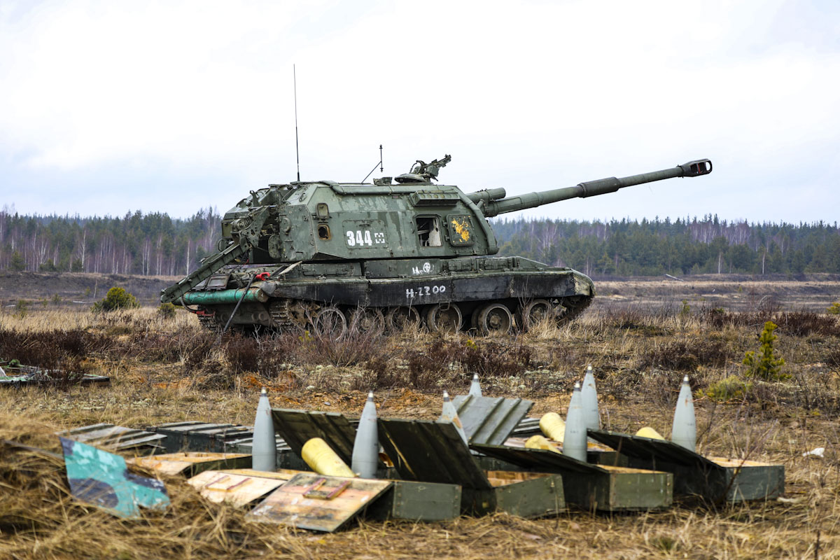 15th Guards Motorized Rifle Regiment's artillery exercise with 2S19 and 2S19M1 Msta-S.